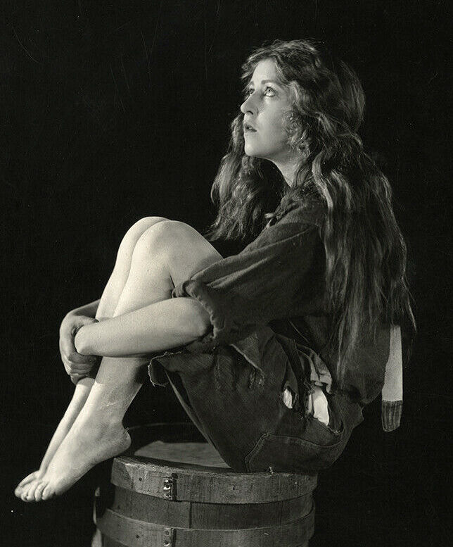 Portrait of Gloria Grey, c. 1920s